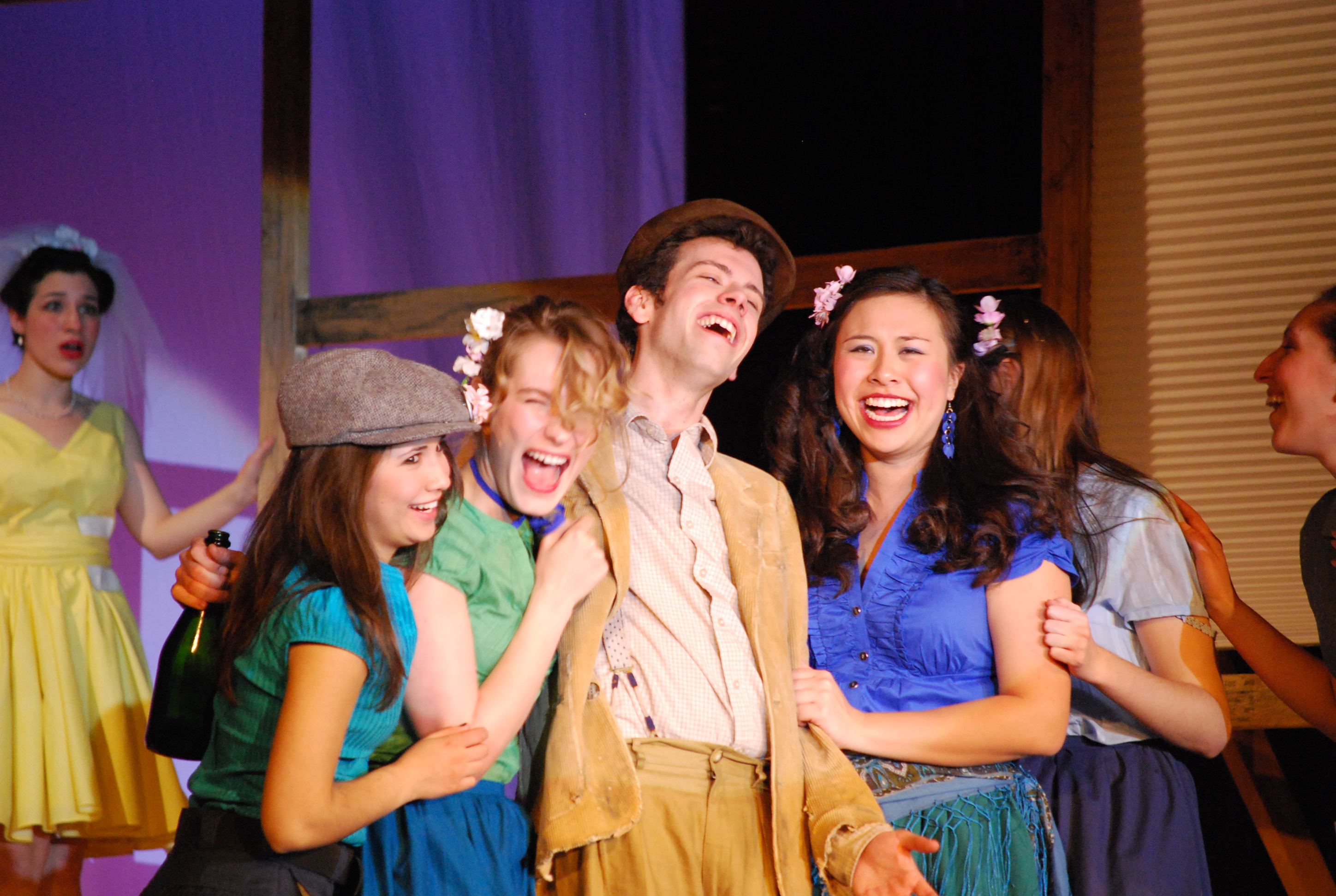 Nemorino surrounded by the village girls in Brown Opera Productions' Spring 2009 show "L'elisir d'amore"